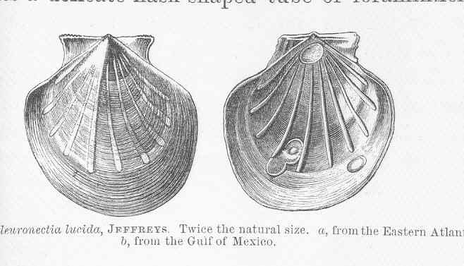 Pleuronectia lucida (Jeffreys, 1873) = Similipecten similis (Laskey, 1811) a, from the Eastern Atlantic b, from the Gulf of Mexico Subject: Pleuronectia, Propeamussiidae Tag: Mollusks